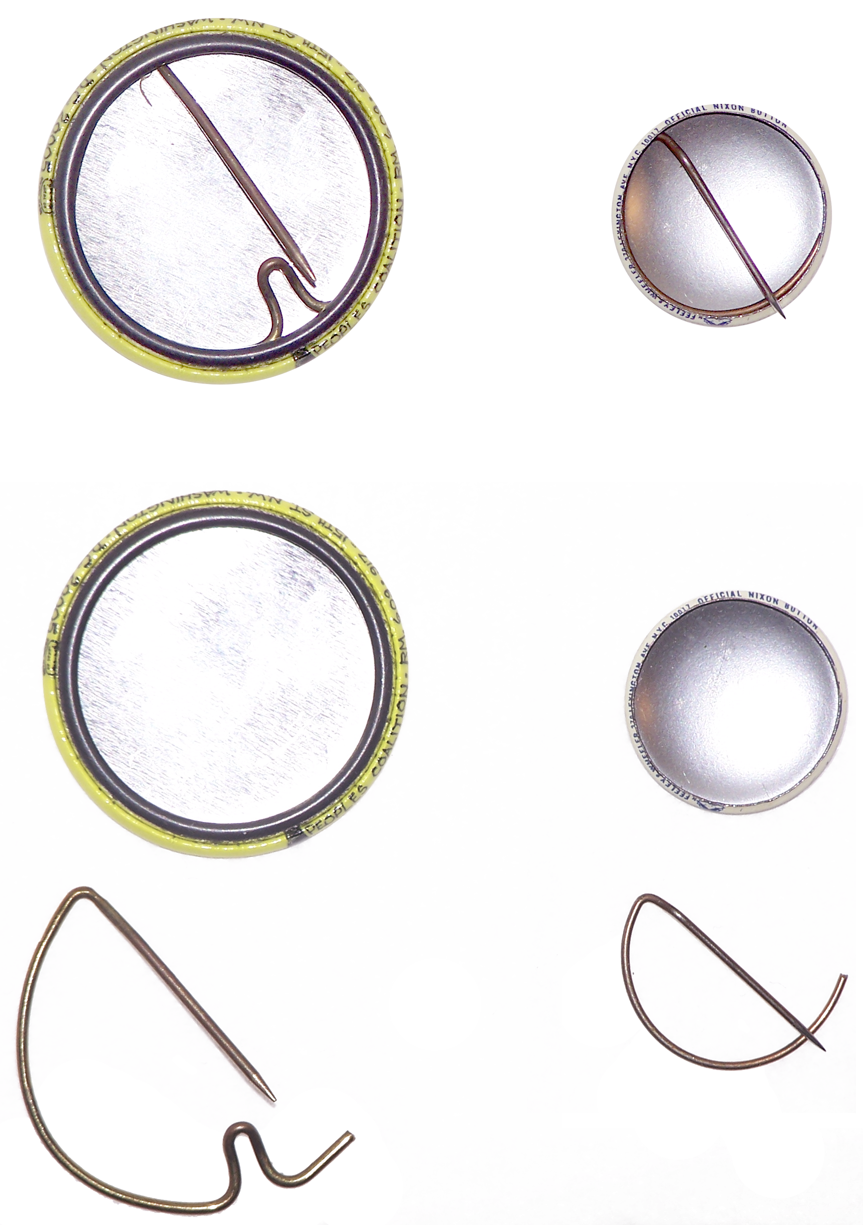 The back side of Pin-back buttons showing two kinds of wire pin, assembled and disassembled